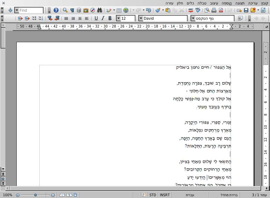 LibreOffice Writer 3.3.2 with Hebrew user interface. Running on a Debian Testing (Linux) system